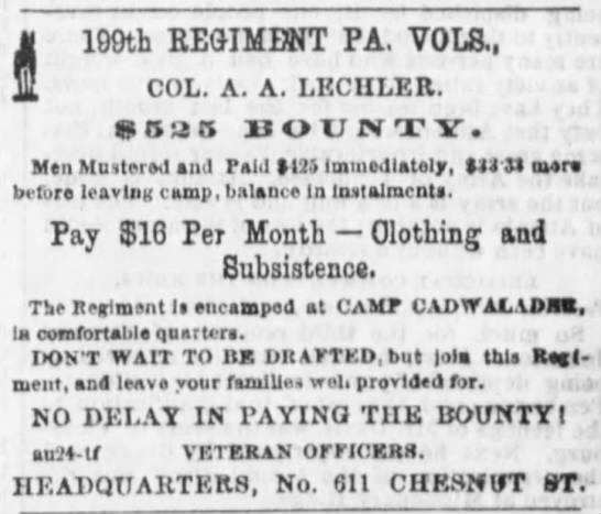 Recruiting advertisement for the 199th Pennsylvania Infantry Regiment, noting a $525 bounty